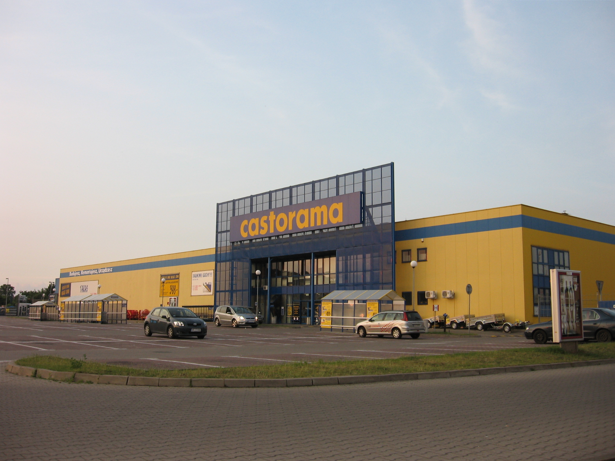 Castorama in Stettin